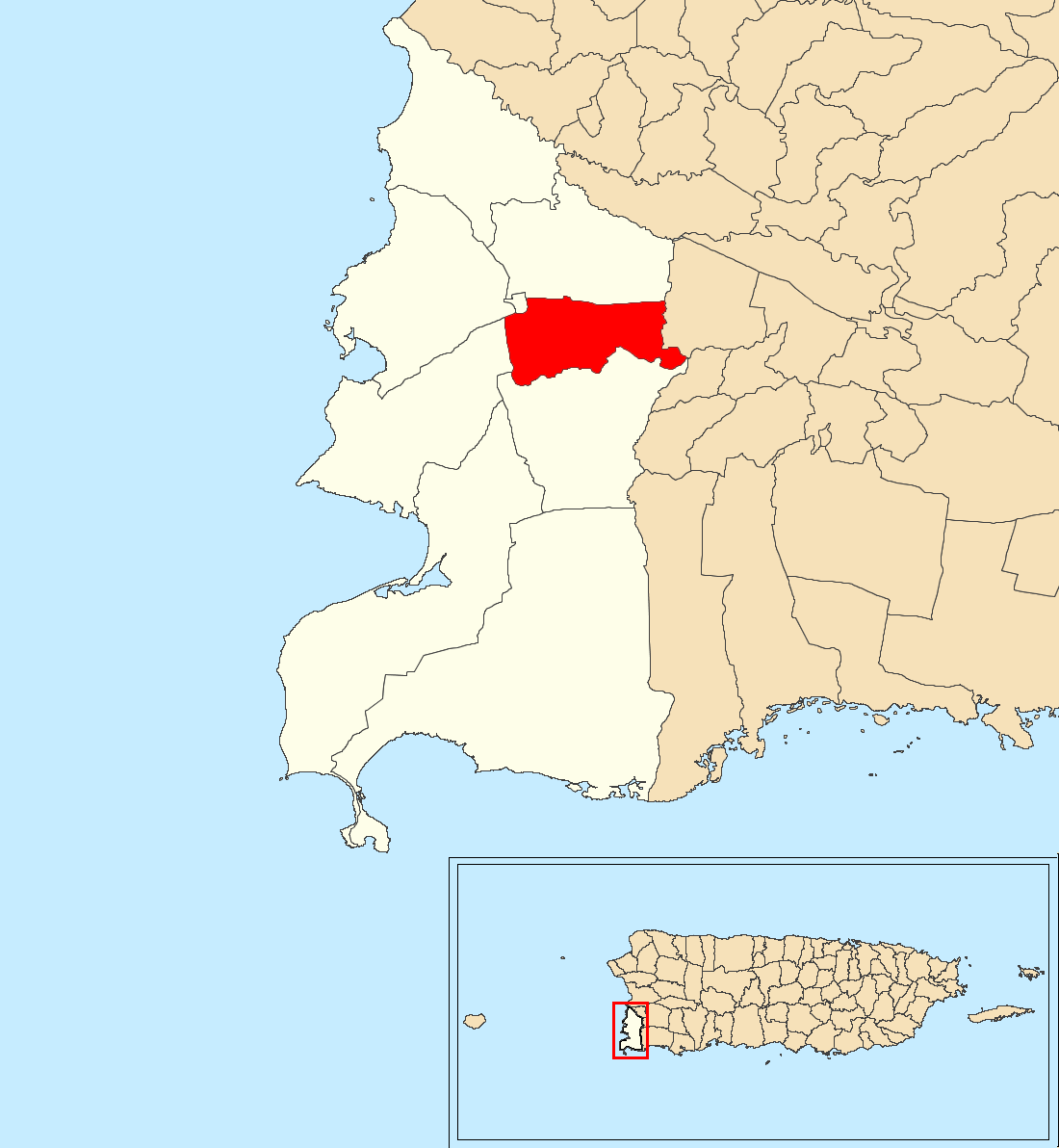 Monte Grande, Cabo Rojo, Puerto Rico locator map